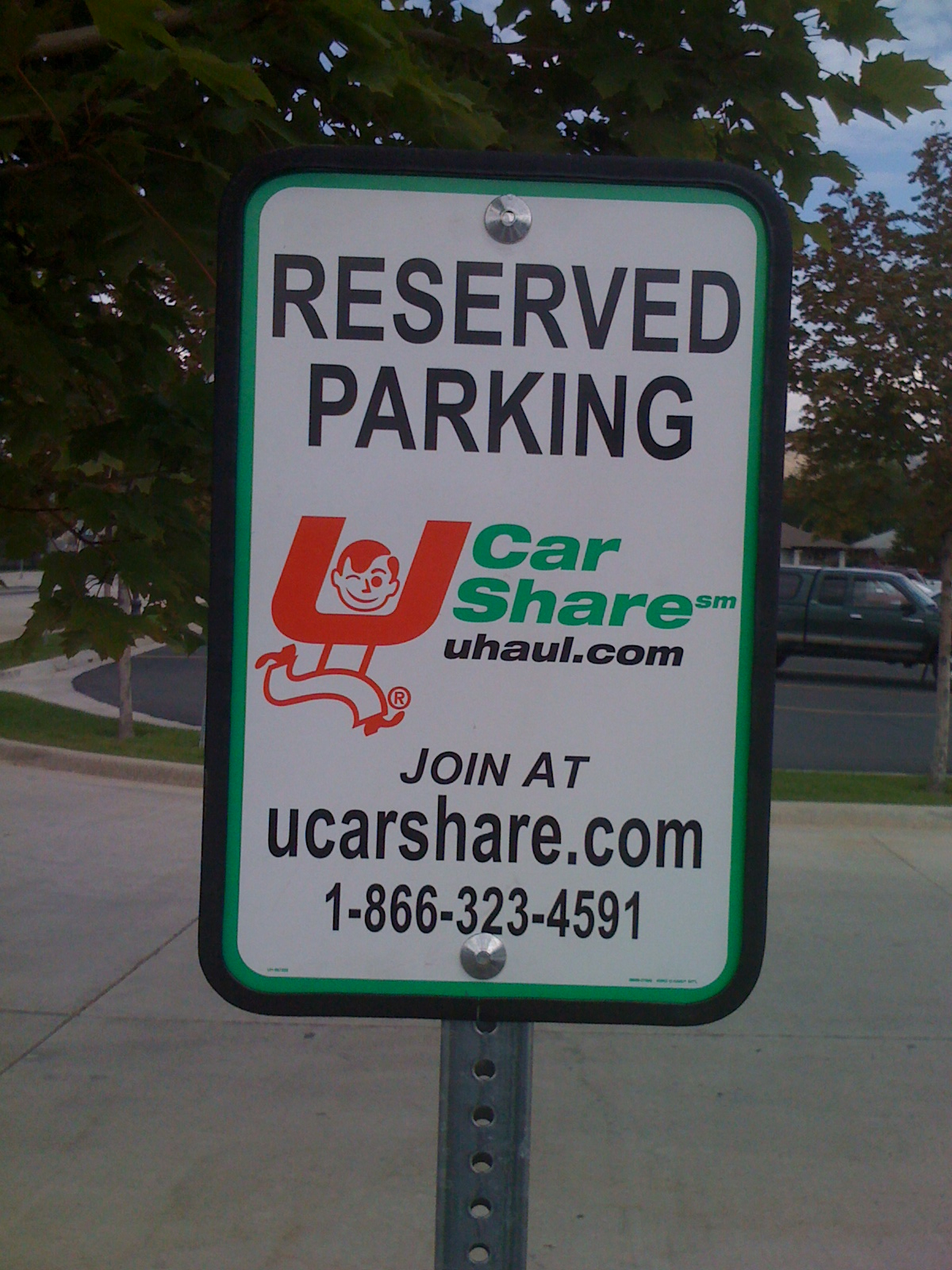 At the Ballpark TRAX station in Salt Lake City.